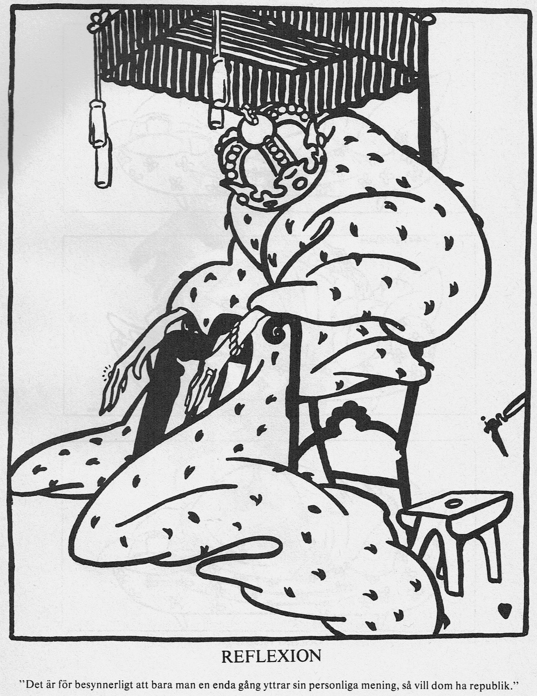 Cartoon Reflexion by Erik Lange. Caricature of Swedish king Gustav V